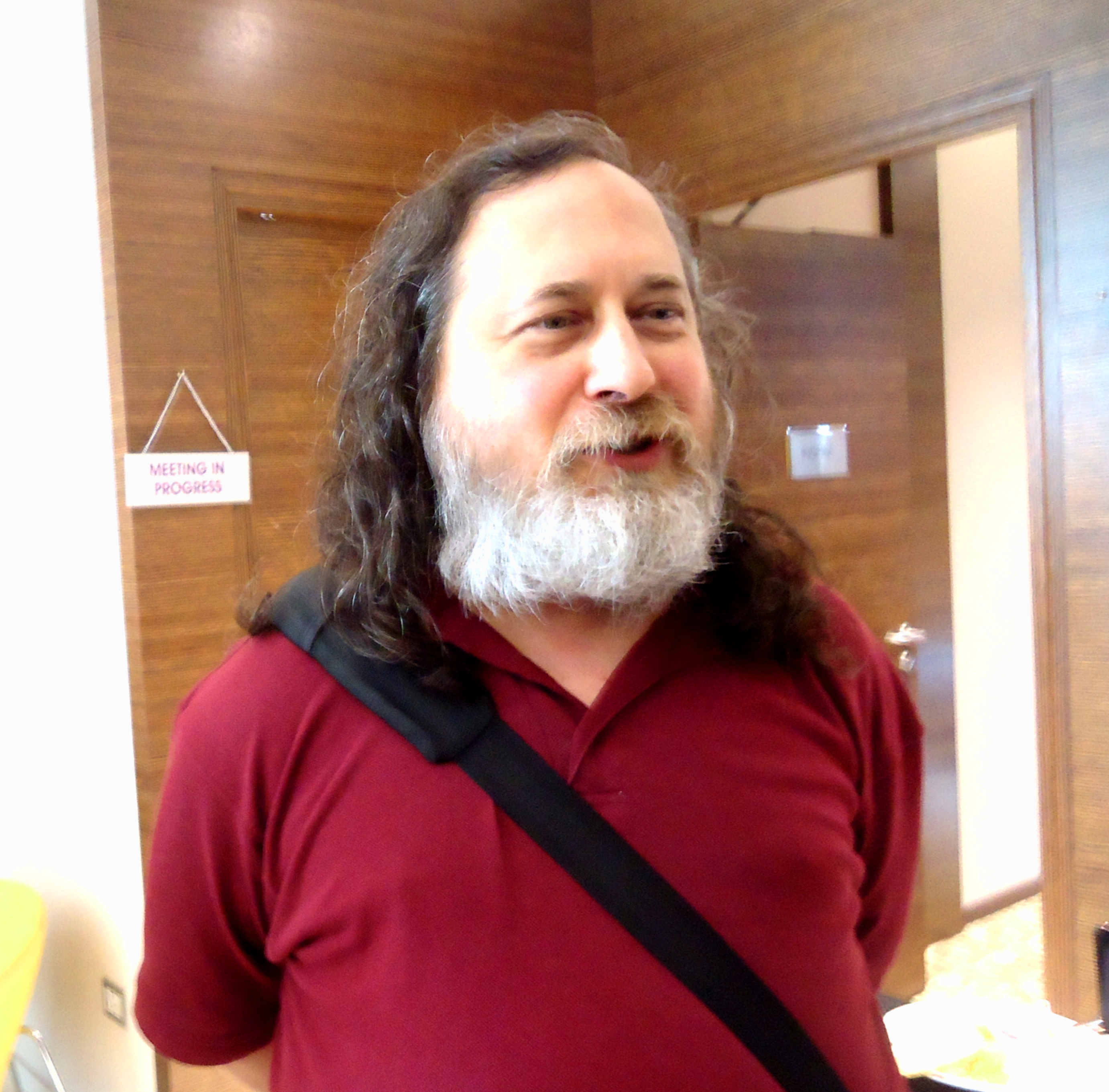 Richard M Stallman at Swathanthra 2014 (International Free Software Conference by ICFOSS) Kerala